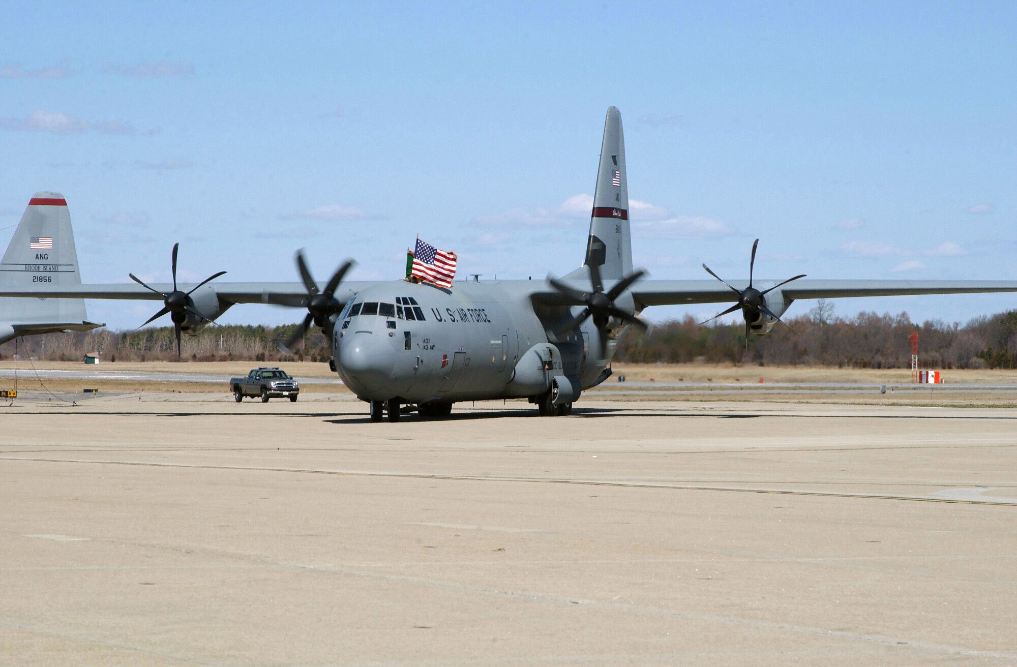 A U.S. Air Force member of the 143rd Airlift Squadron, 143rd Airlift Wing, Rhode Island Air National Guard, raises a flag through the hatch of a Lockheed C-130J-30 Hercules cargo aircraft (s/n 99-1433) at Quonset State Airport, Rhode Island (USA), to signify the safe homecoming of troops from the 118th and 119th Military Police of the Rhode Island Army National Guard from an 18-month deployment in support of operations "Enduring Freedom" and "Iraqi Freedom" on 10 April 2004.